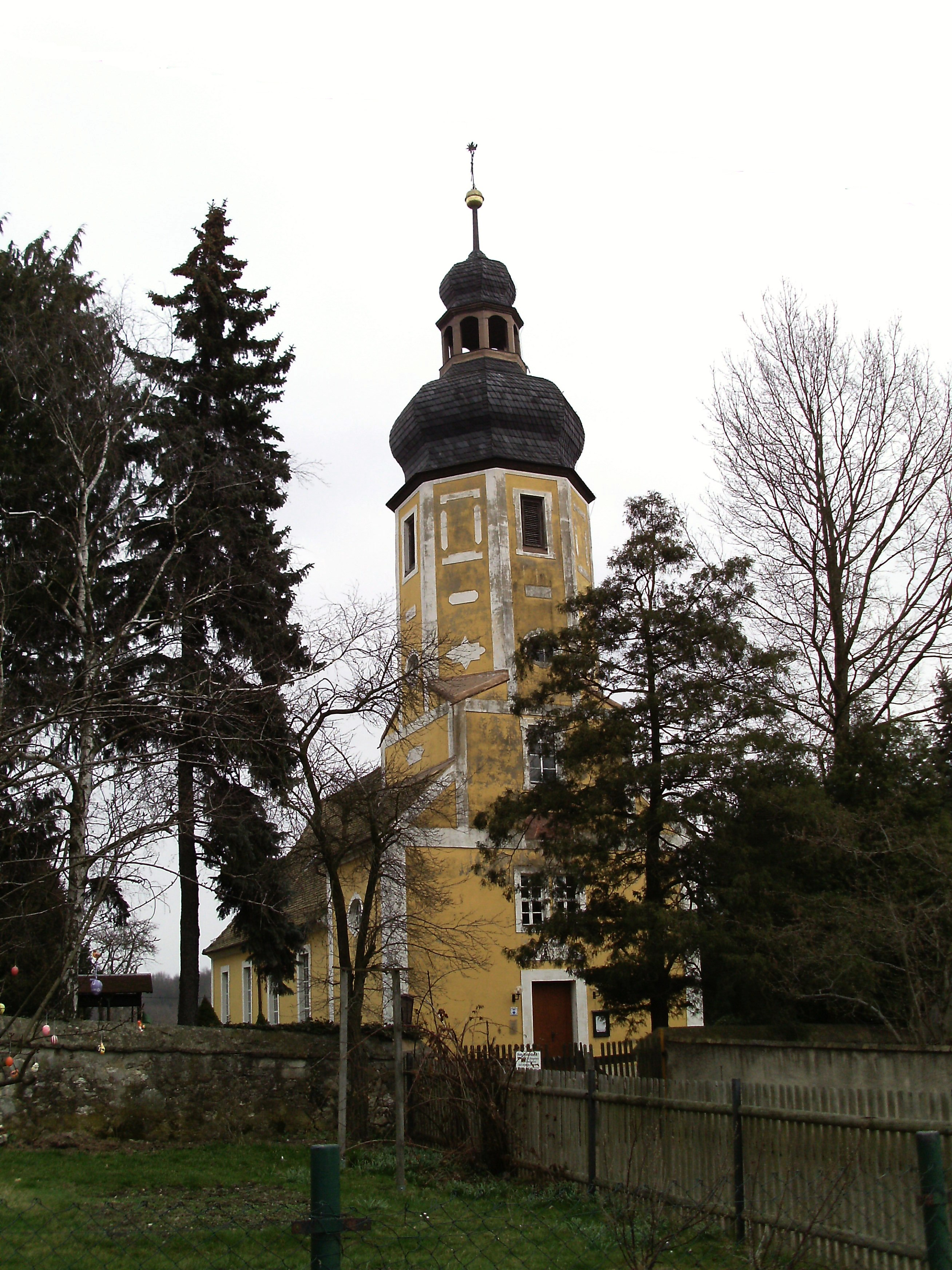 Steinbach church (Bad Lausick, Leipzig district, Saxony)